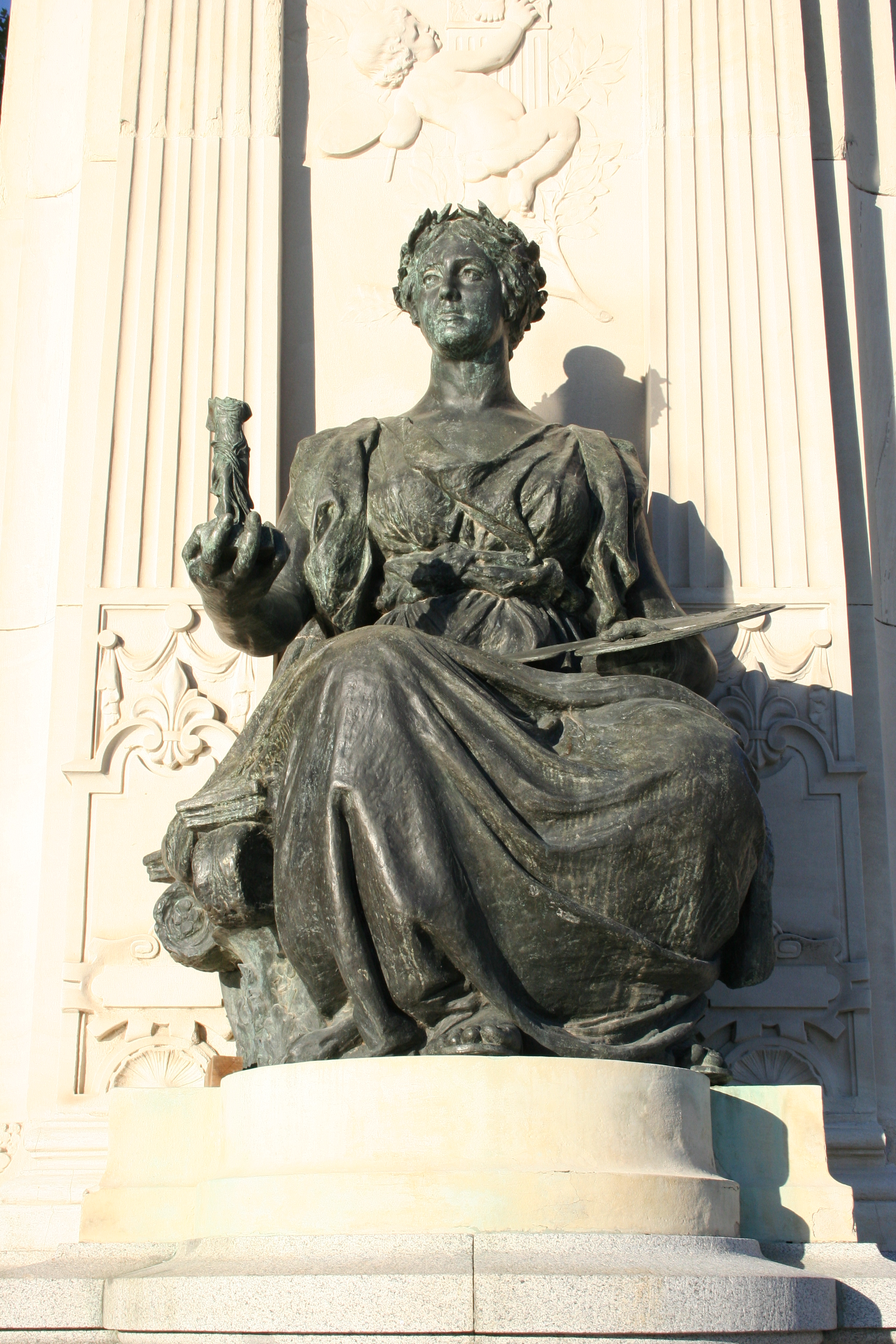 The Arts. Bronze allegorical sculpture by Joaquín Bilbao. Detail of the Monument to Alfonso XII of Spain in the Retiro Park (Jardines del Buen Retiro) in Madrid, built from 1902 to 1922.